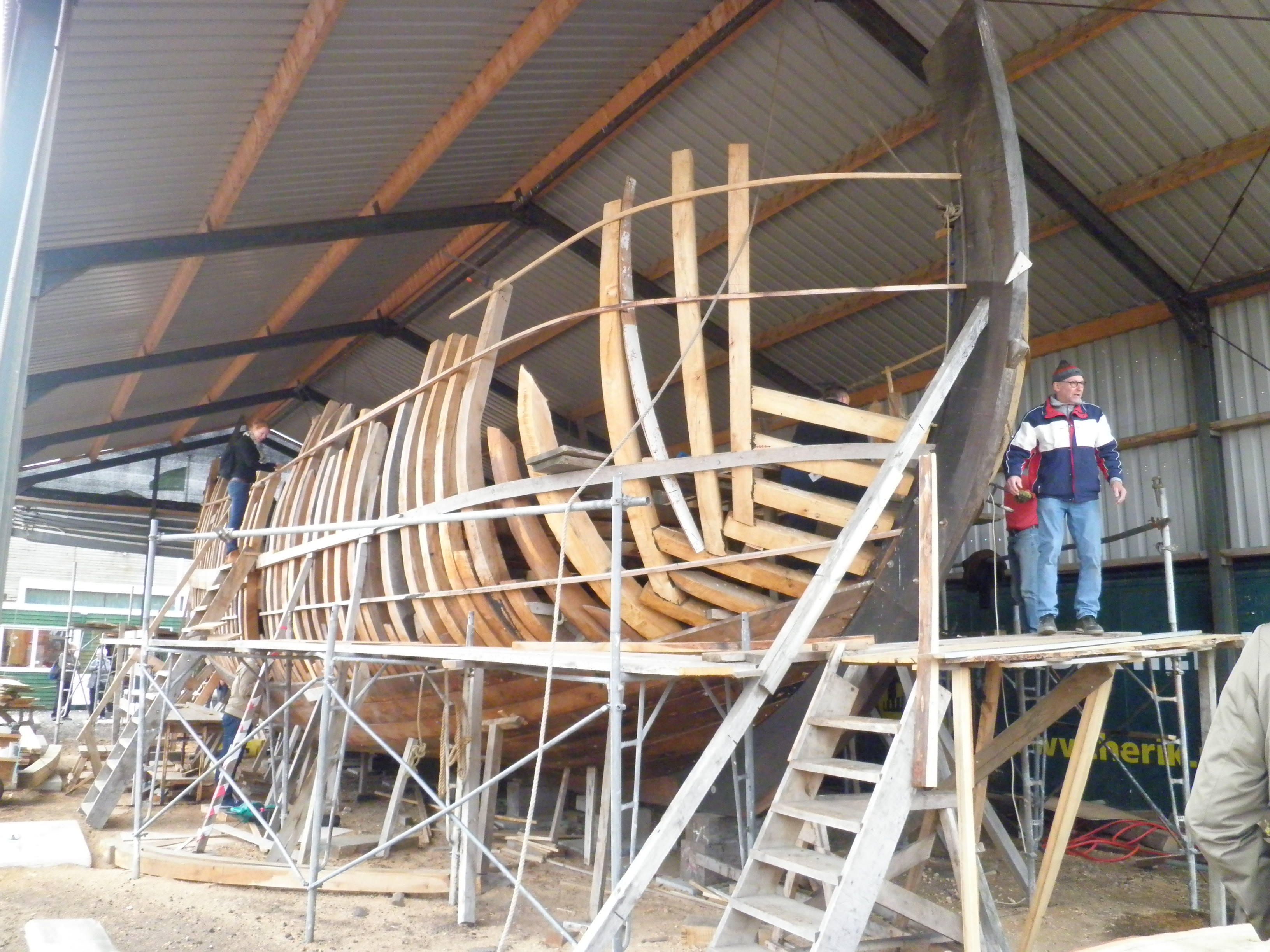 The bow of the expedition ship Willem Barentsz in Harlingen. It is a reconstruction of the original ship of Willem Barentsz.